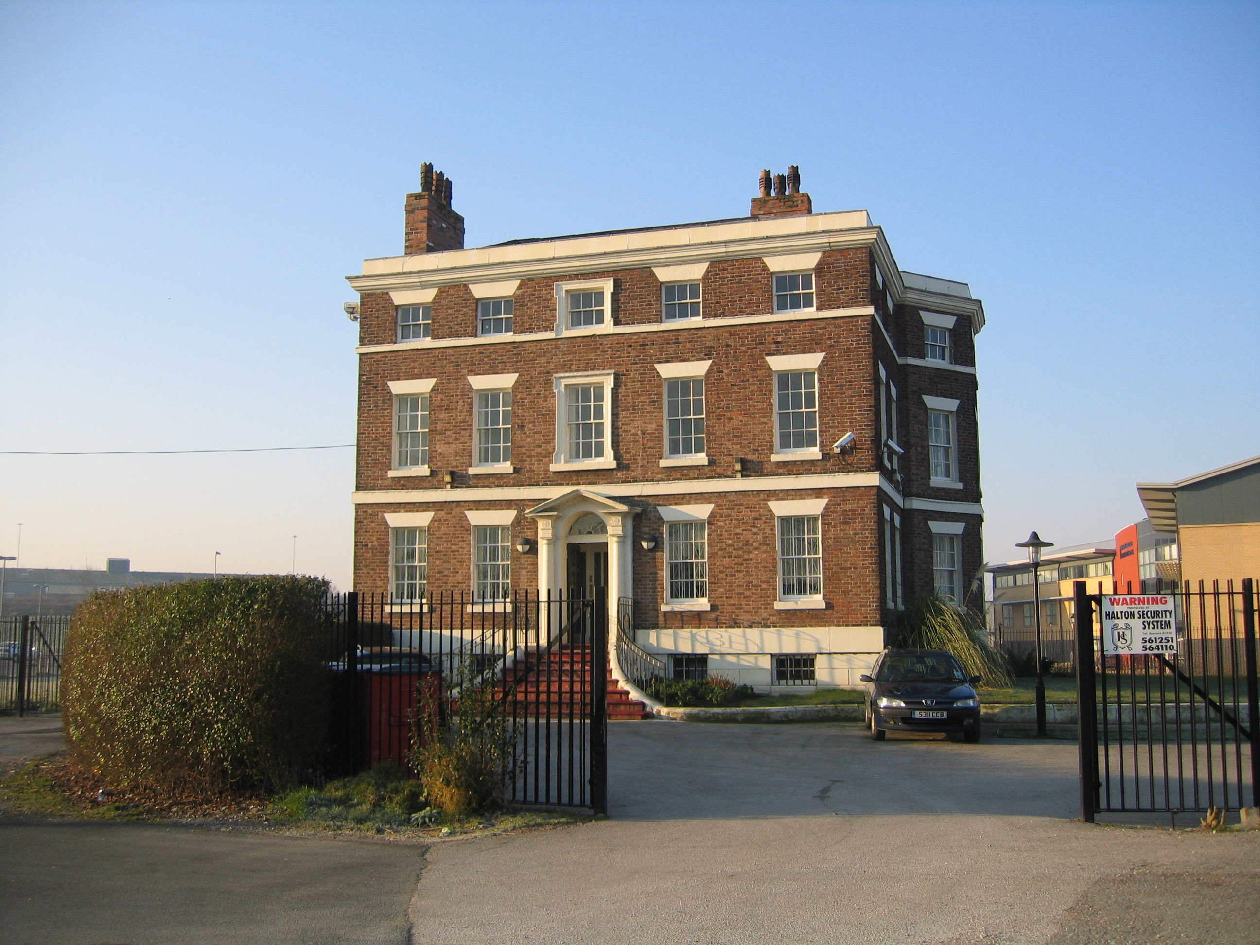 The house was built by the Duke of Bridgewater at the foot of the flight of locks leading from the Bridgewater Canal to the River Mersey.